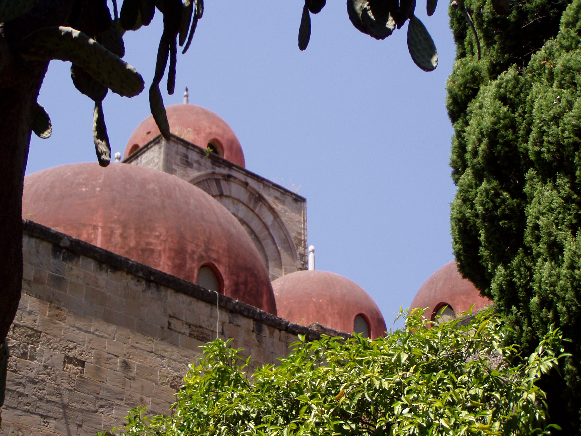 Roofs of San Giovanni degli Eremiti (Martin Teetz, July 2004)